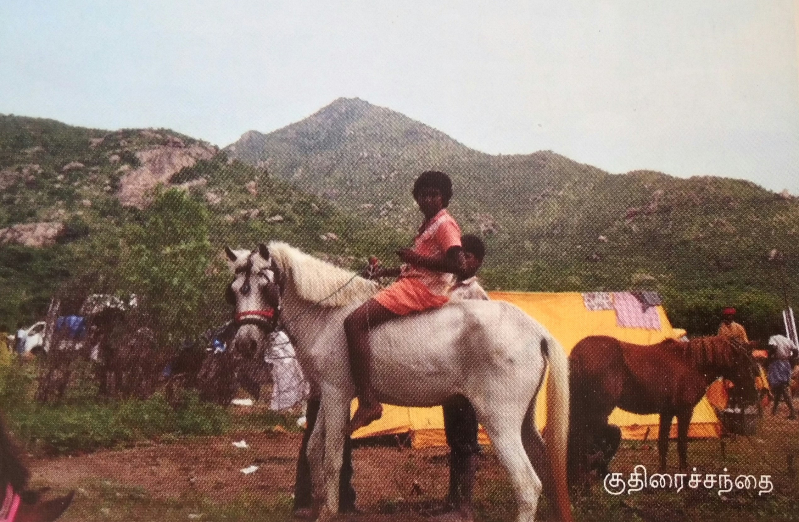 Tiruvannamalai events